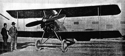 An image of the KEA Chelidon multi-role military aircraft